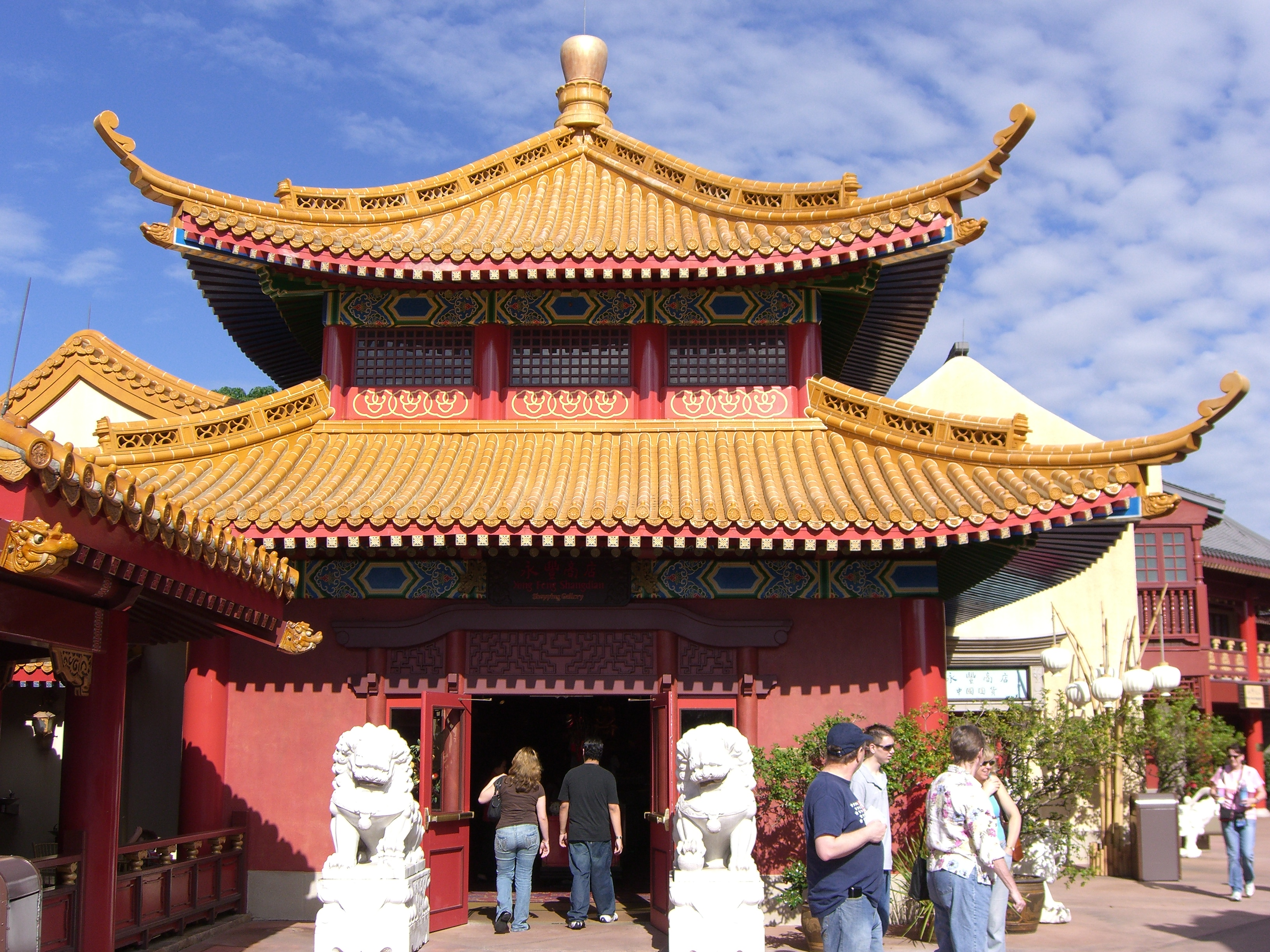 Small pagoda in the China pavillion at Epcot.